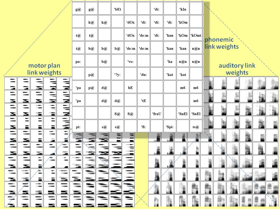 Phonetic Map Link Weights for ACT Model (neurocomputational model of speech processing)